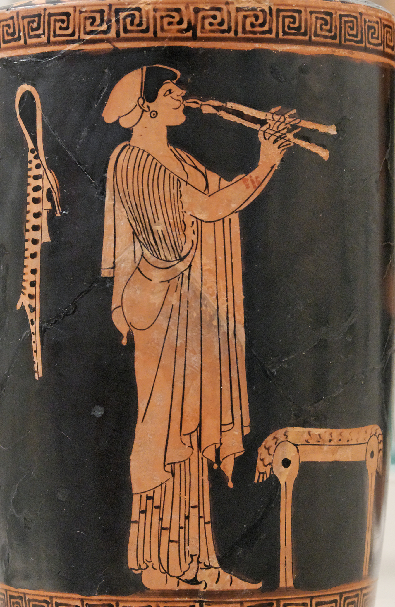 Girl playing the aulos (double flute). Attic red-figure lekythos.